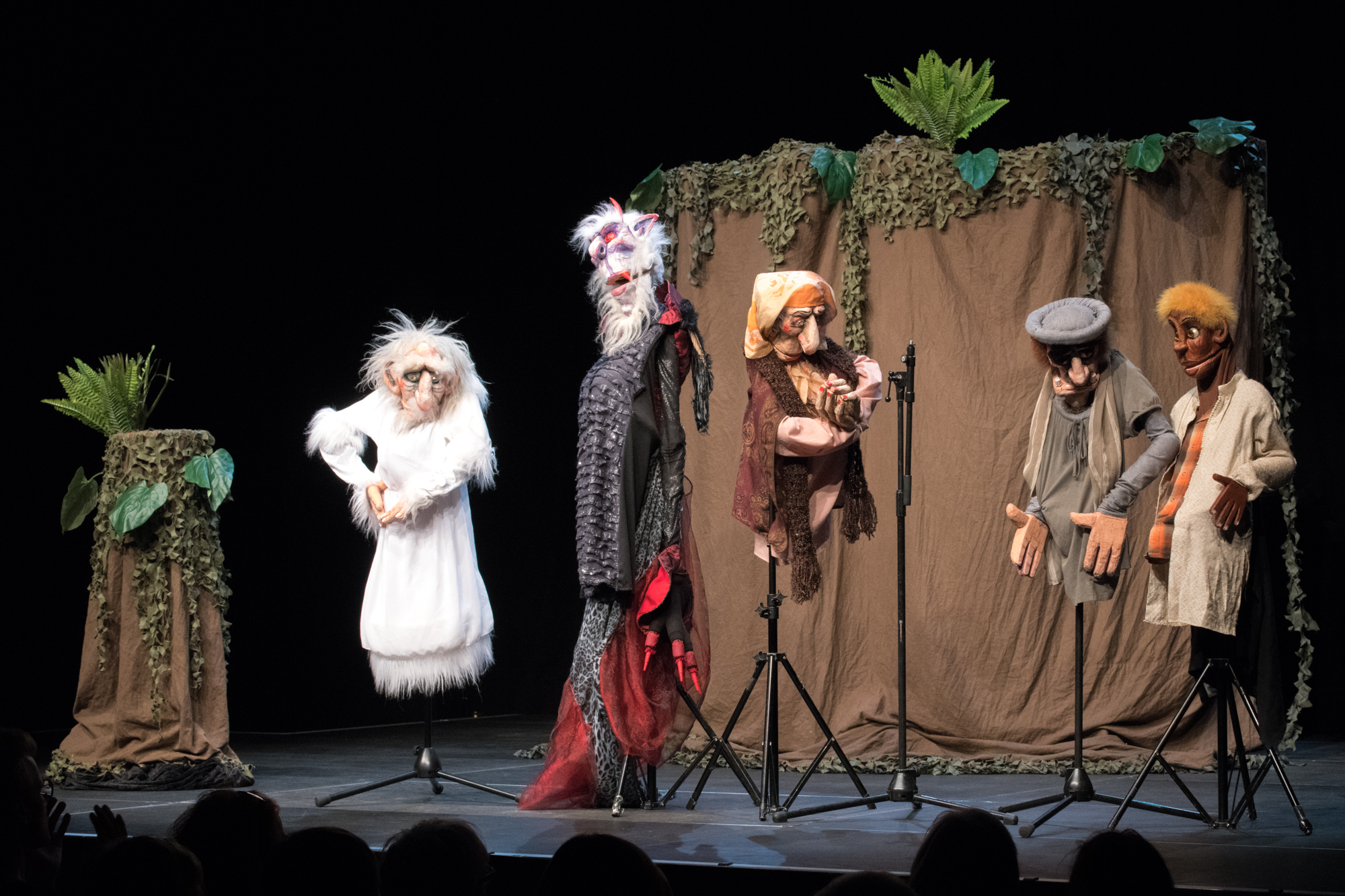 Neville Tranter "Babylon" Posthof Linz (2019)